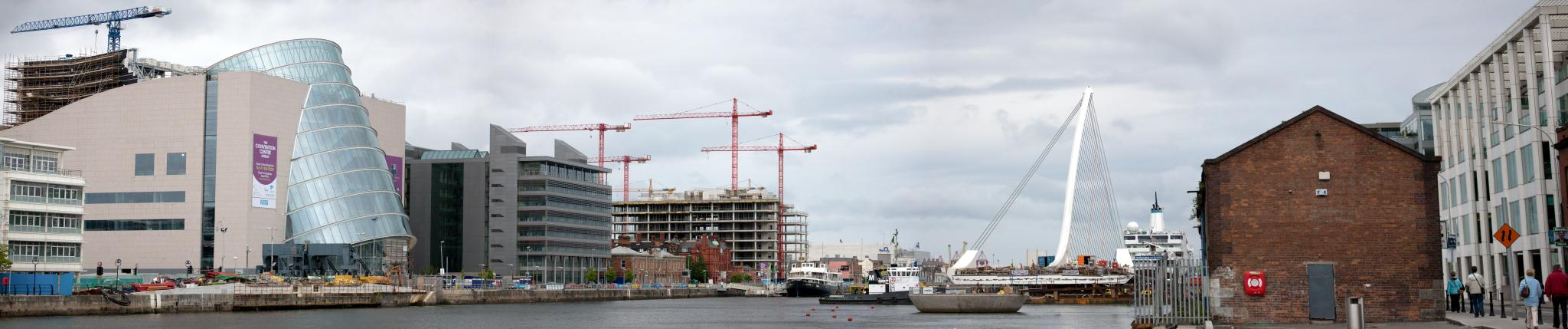 The Samuel Beckett Bridge is a cable-stayed bridge currently under construction in Dublin, Ireland, and is expected to join Macken Street on the south-side of the River Liffey, to Guild Street and North Wall Quay in the Docklands area. The architect is Santiago Calatrava, a designer of a number of innovative bridges and buildings. This will be the second bridge in the area designed by Calatrava, the first being the James Joyce Bridge, which is further upstream. Constructed by the "Graham Hollandia Joint Venture", the main span of the Samuel Beckett Bridge is supported by 31 cable stays from a doubly back-stayed single forward arc tubular tapered spar, with decking provided for four traffic and two pedestrian lanes. The shape of the spar and its cables is said to evoke an image of a harp lying on its edge. (The harp is a secular icon for Ireland and things Irish.) The steel structure of the bridge was constructed in Rotterdam by Hollandia, a Dutch company also responsible for the steel fabrication of the London Eye. The steel span of the bridge was transferred from the Hollandia wharf in Krimpen a/d IJssel on May 3rd, 2009, with support from specialist transport company ALE Heavylift. The bridge is expected to open in late 2009 or early 2010.